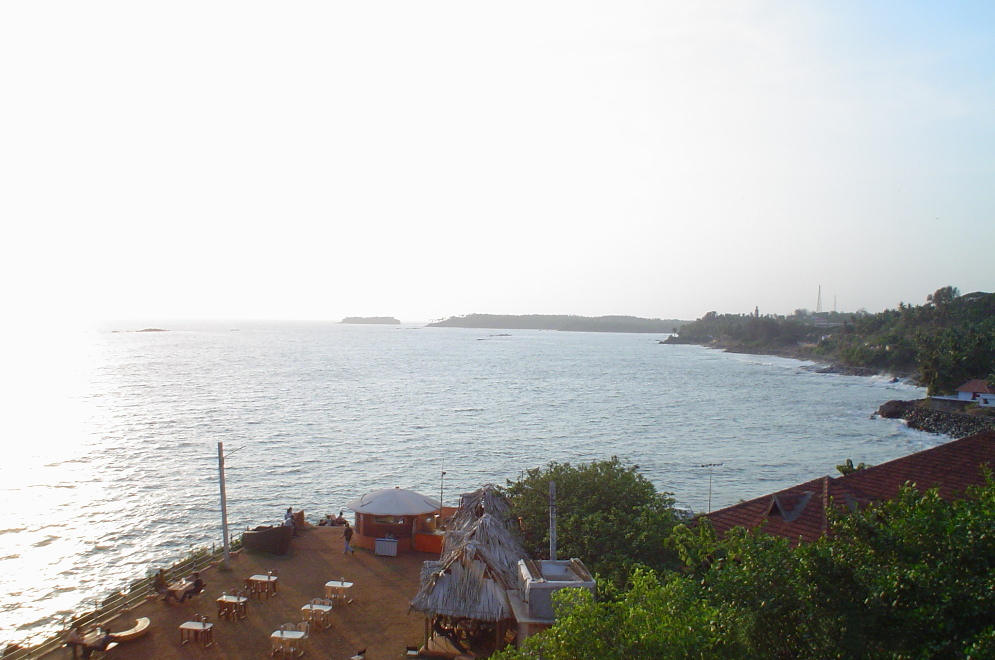 Picture of Overbury's Folly, Thalassery. Photograph by Atul/Shijaz